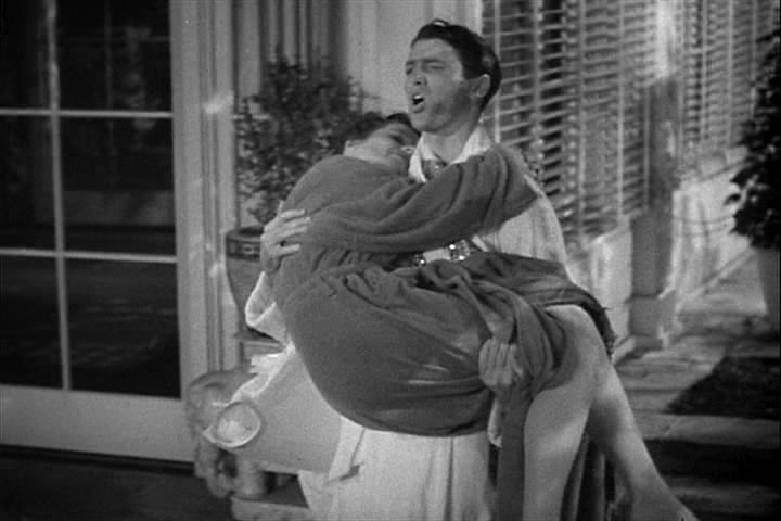 Philadelphia Story